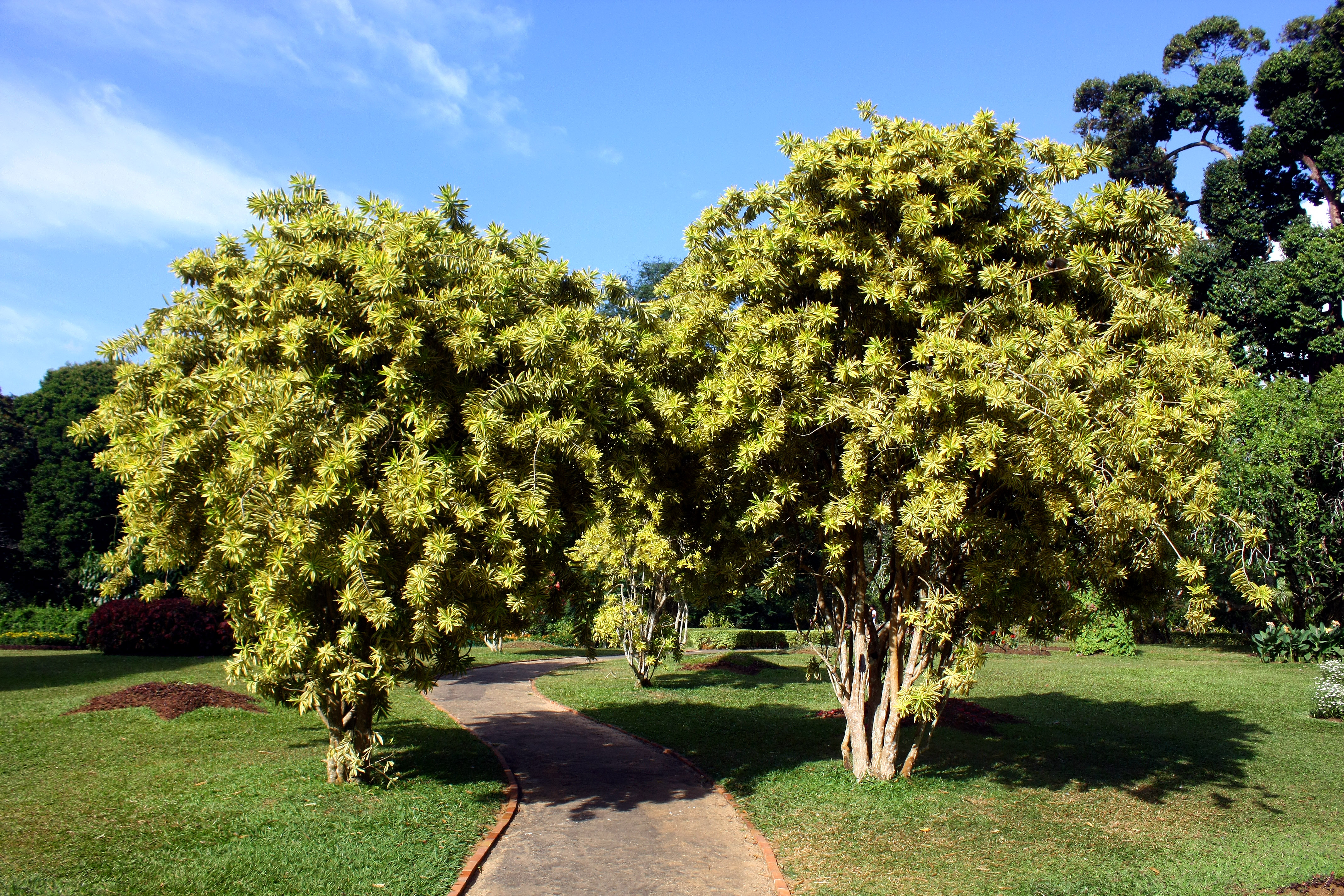 Dracaena reflexa var. variegata (Song of India) at Botanical Garden of Peradeniya, Sri Lanka